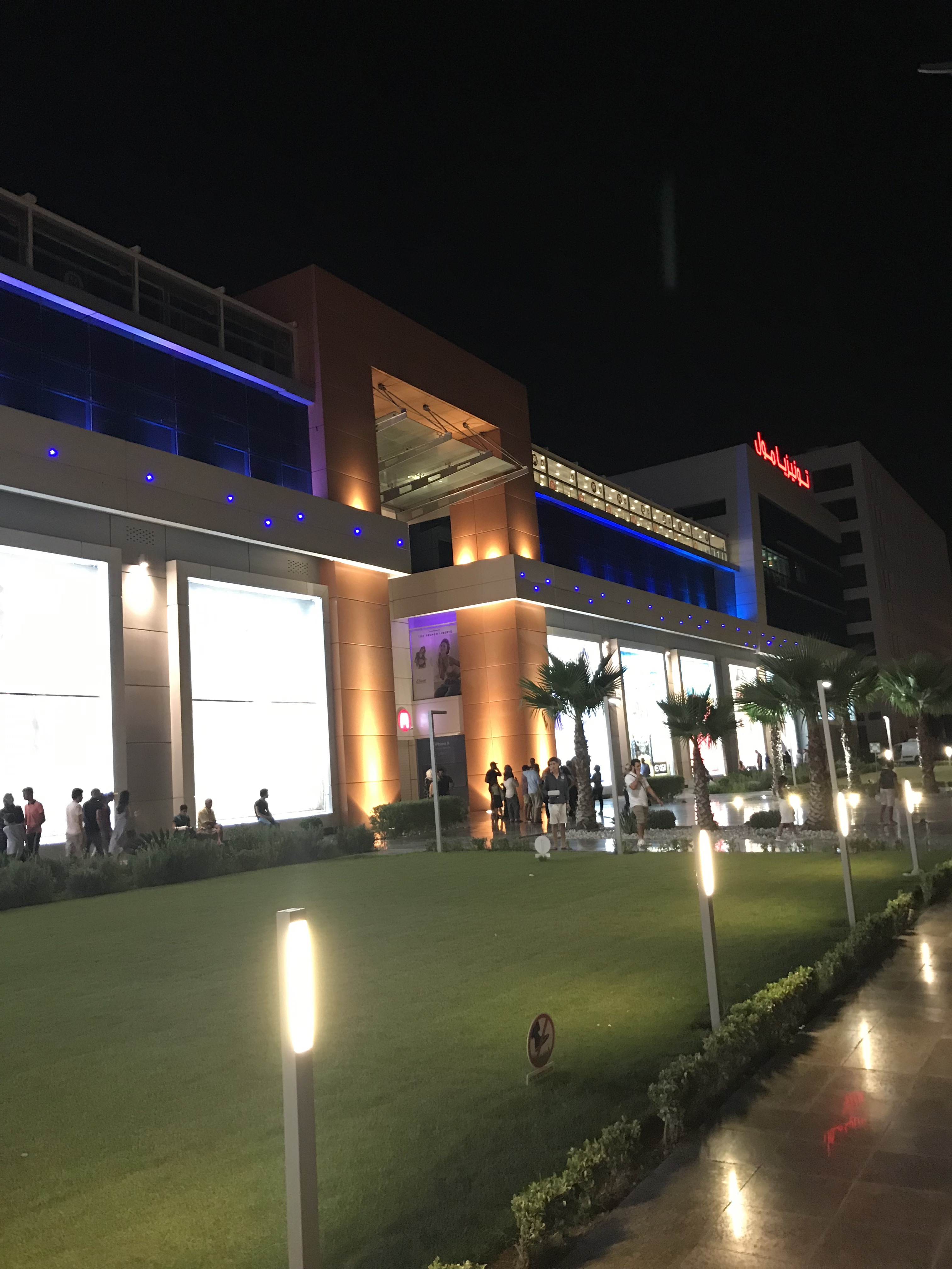 One of the biggest malls of the capital